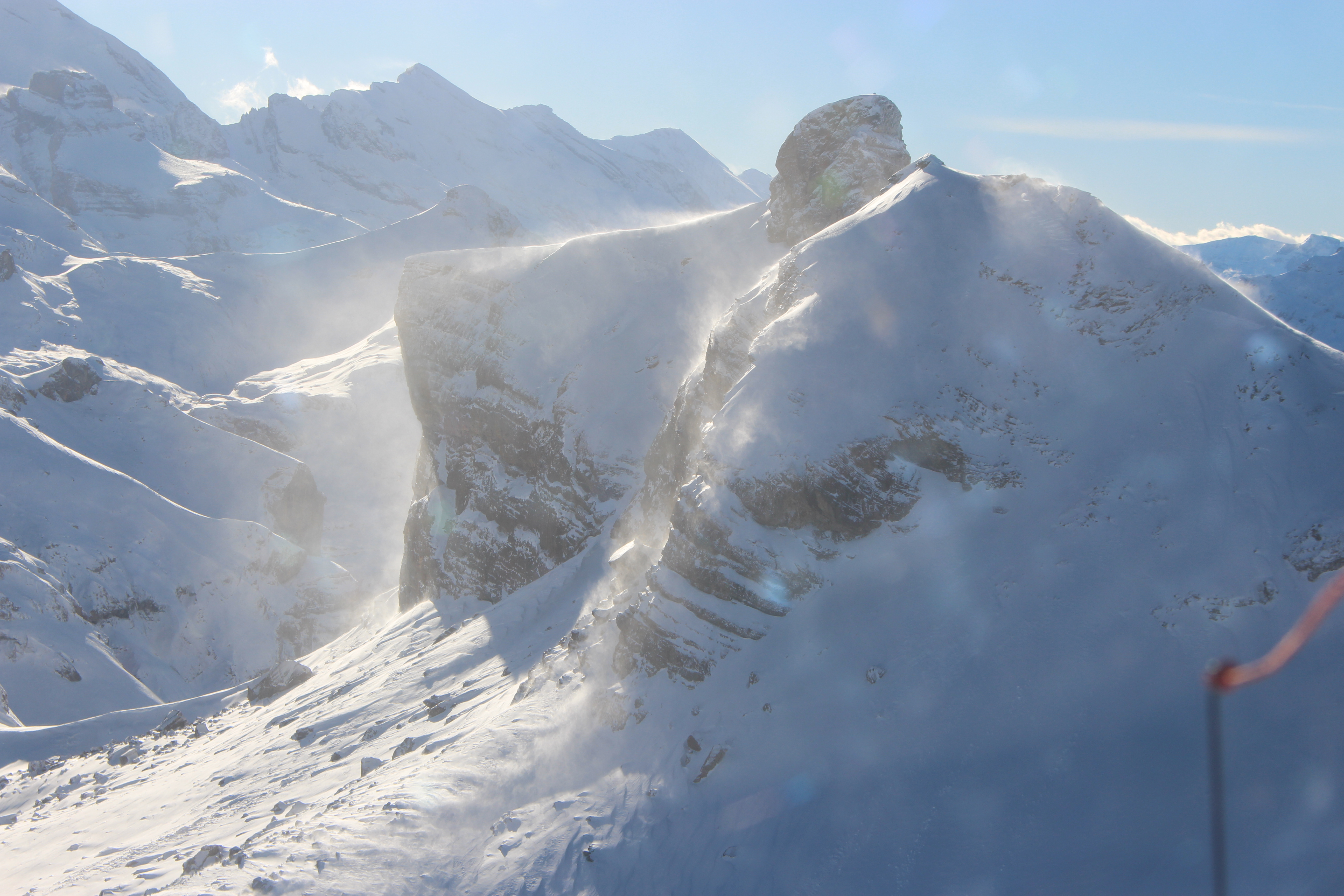 Photos of a helicopter flight around the Bernese Alps; start of the flight was in Lauterbrunnen.